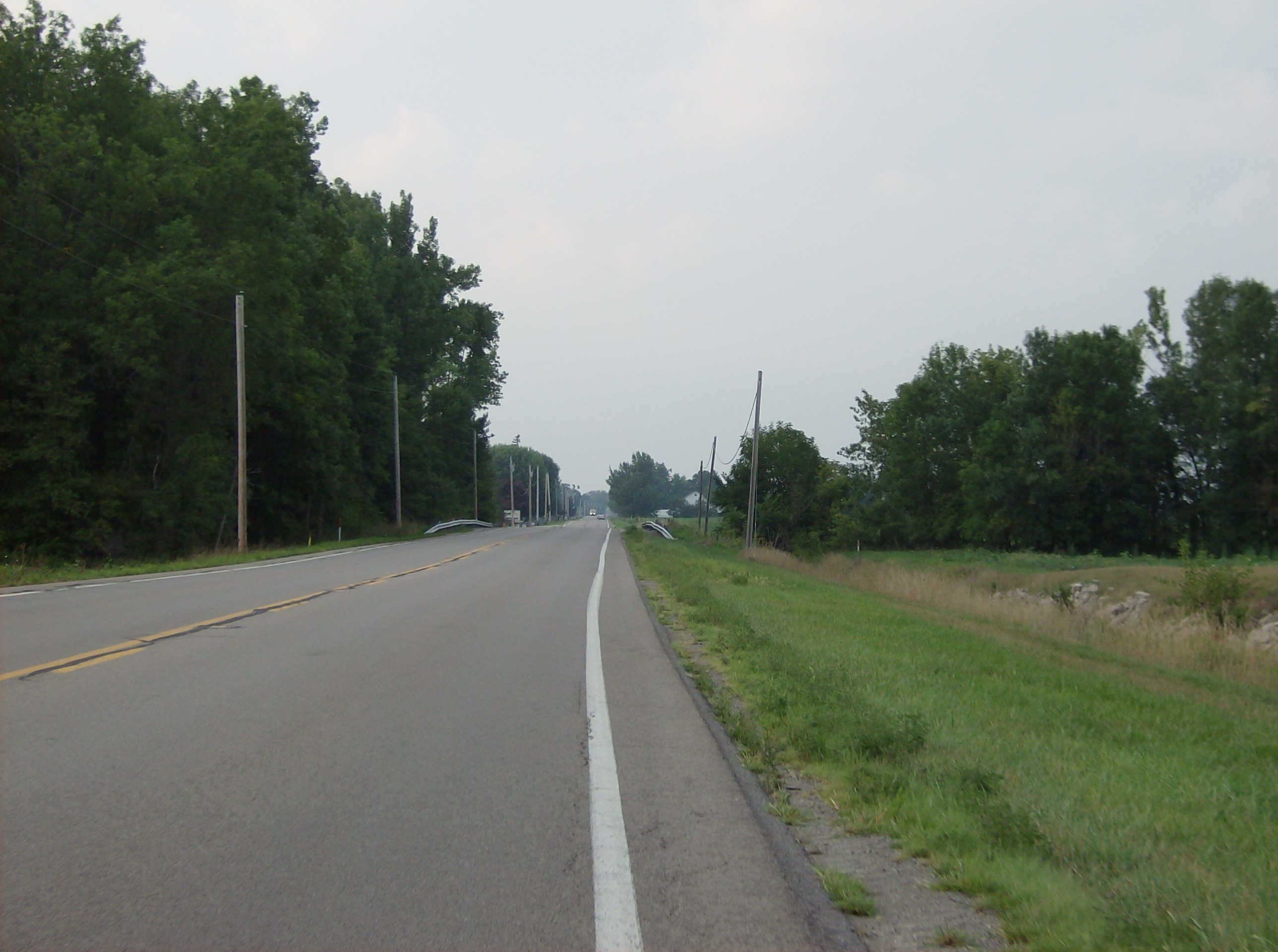 Along northbound State Route 117 in western Richland Township, Logan County, Ohio, United States.